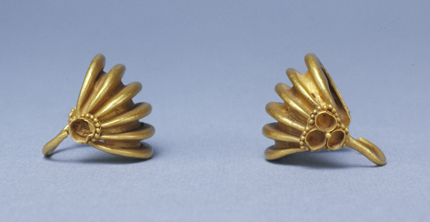 This pair of basket-shaped hair ornaments is decorated with granulation and cloisonné.